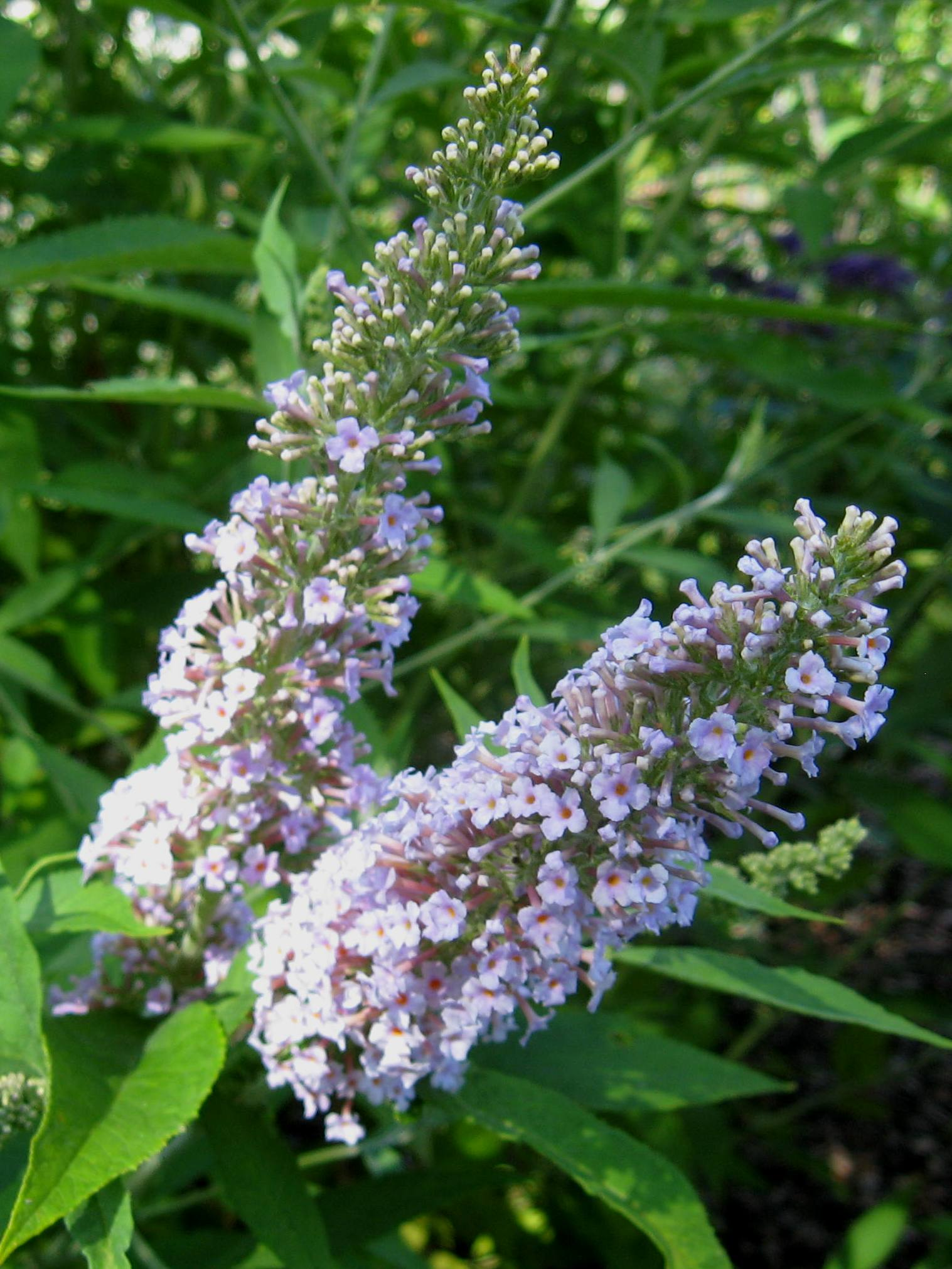 Photo of Buddleja cultivar 'Les Kneale' taken at Longstock Park, UK, August 2012